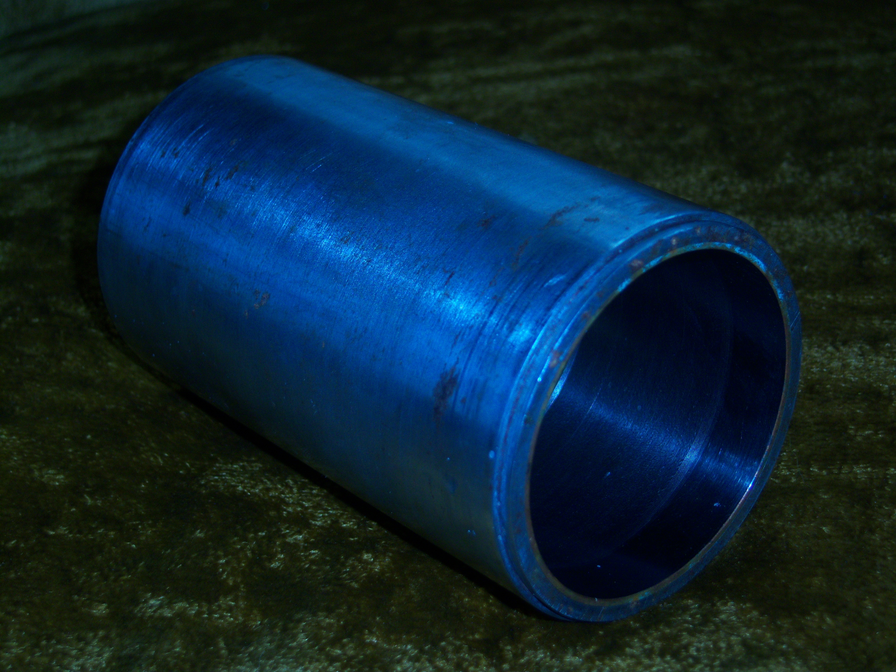 A cylinder record mould with printing grooves on the inside.